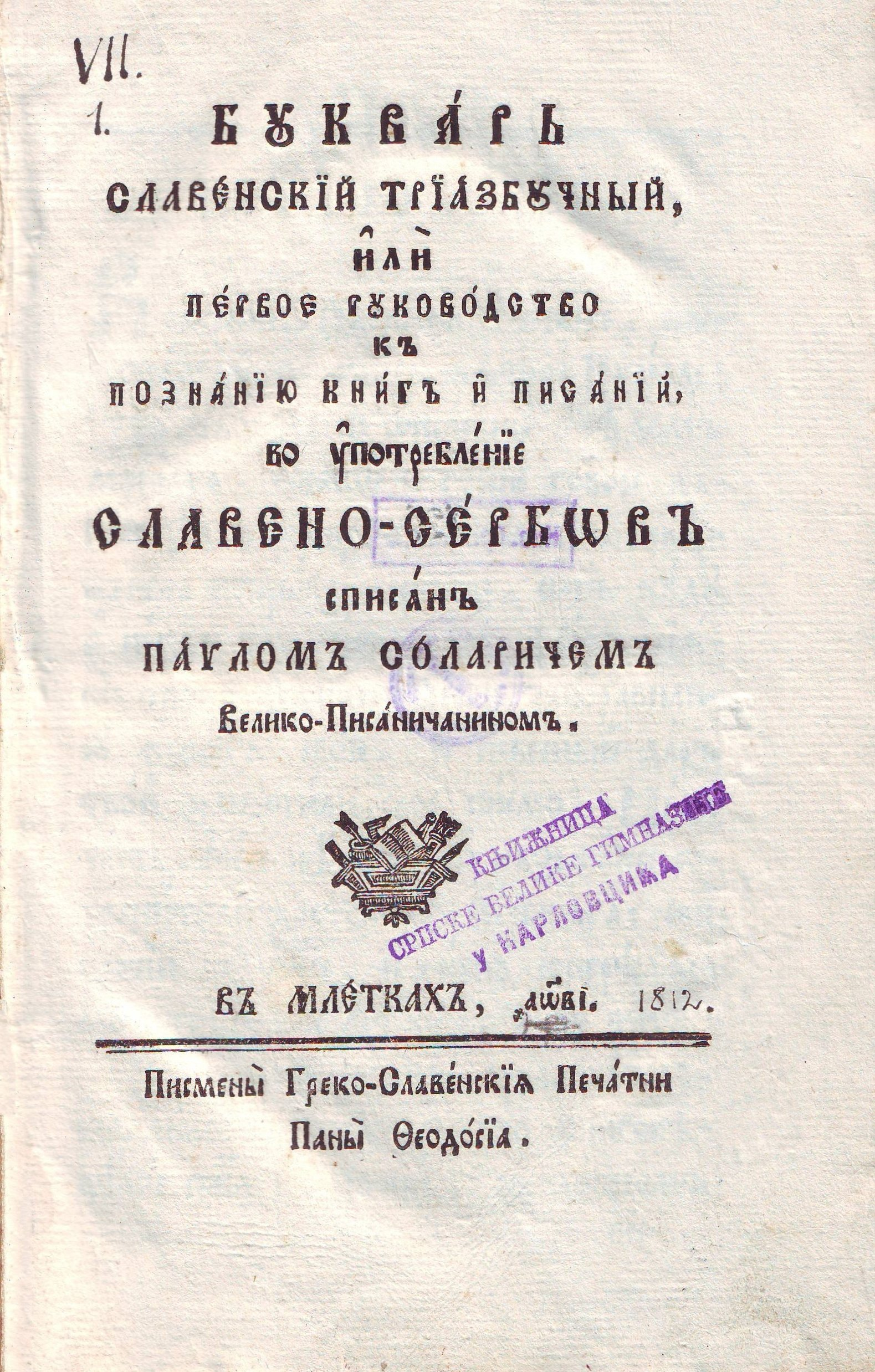 Cover of Bukvar slavenski triazbučni (1812) by Pavle Solarić. Srpski (latinica): Naslovna strana Bukvara slavenskog triazbučnog (1812) Pavla Solarića.